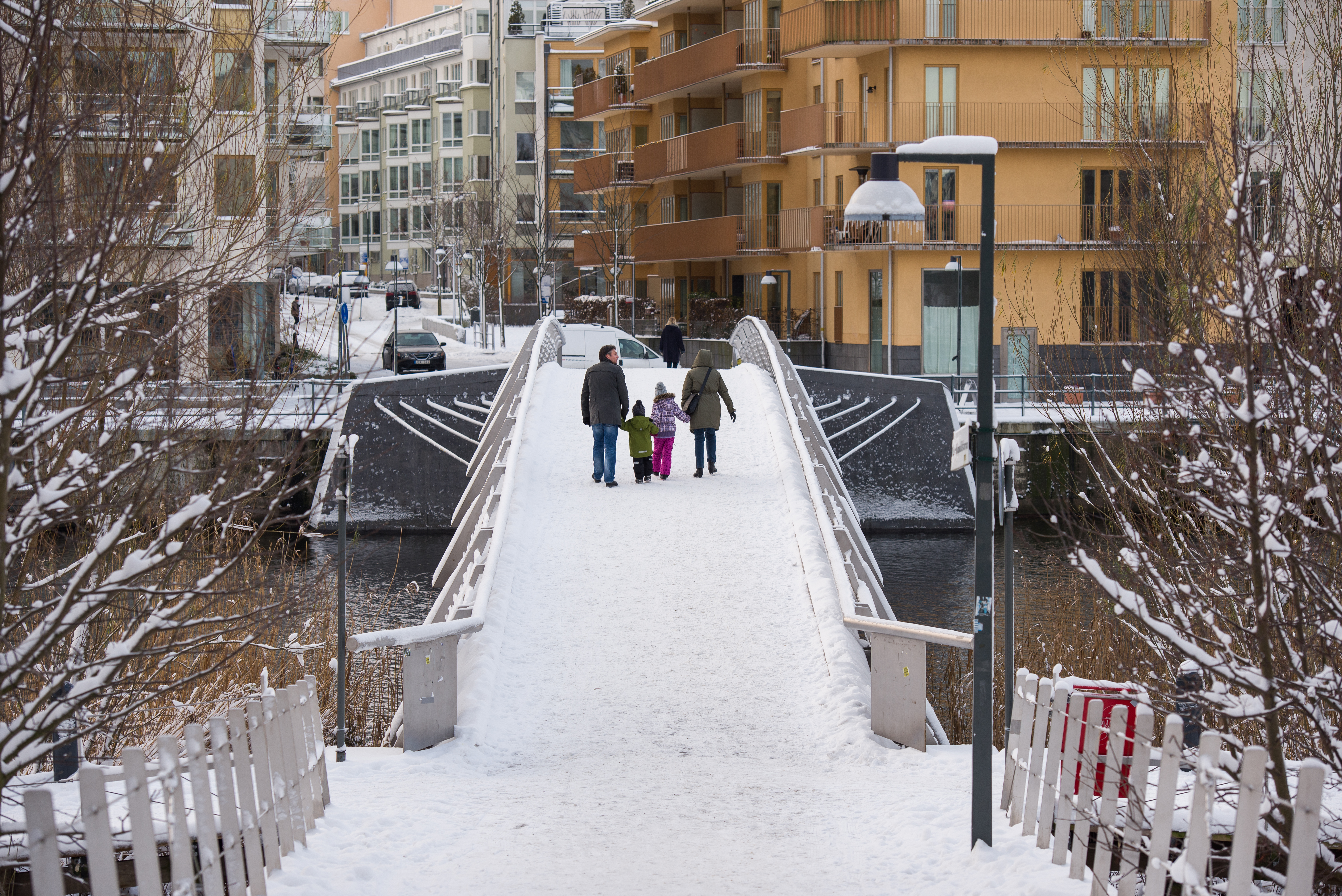 People crossing Sicklauddsbron, a stainless steel pedestrian bridge in Södra Hammarbyhamnen, Stockholm.